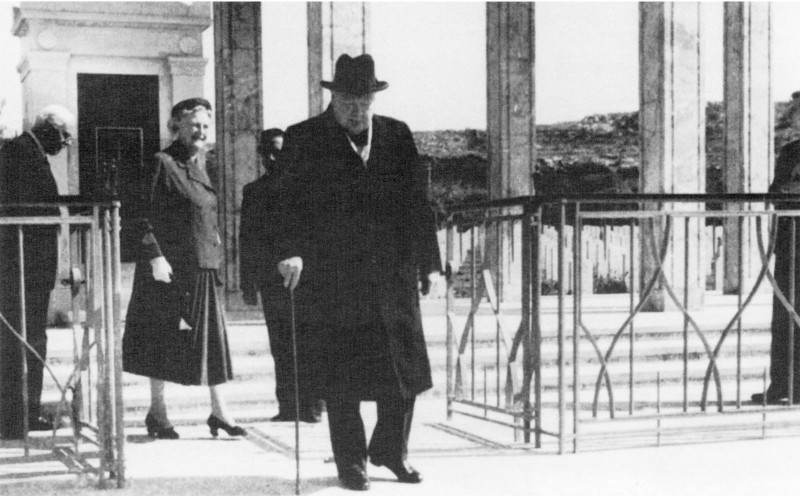 Sir Winston Churchill visit the British War Cemetery in Syracuse, 1955